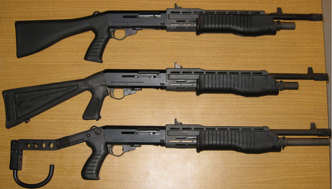 Top. Standard 1991 Sporting Purpose SPAS-12. Middle Choate aftermarket AR-15 Grip/Skeleton Stock 1987. Bottom Special Purpose 1982 Folding Stock Version.